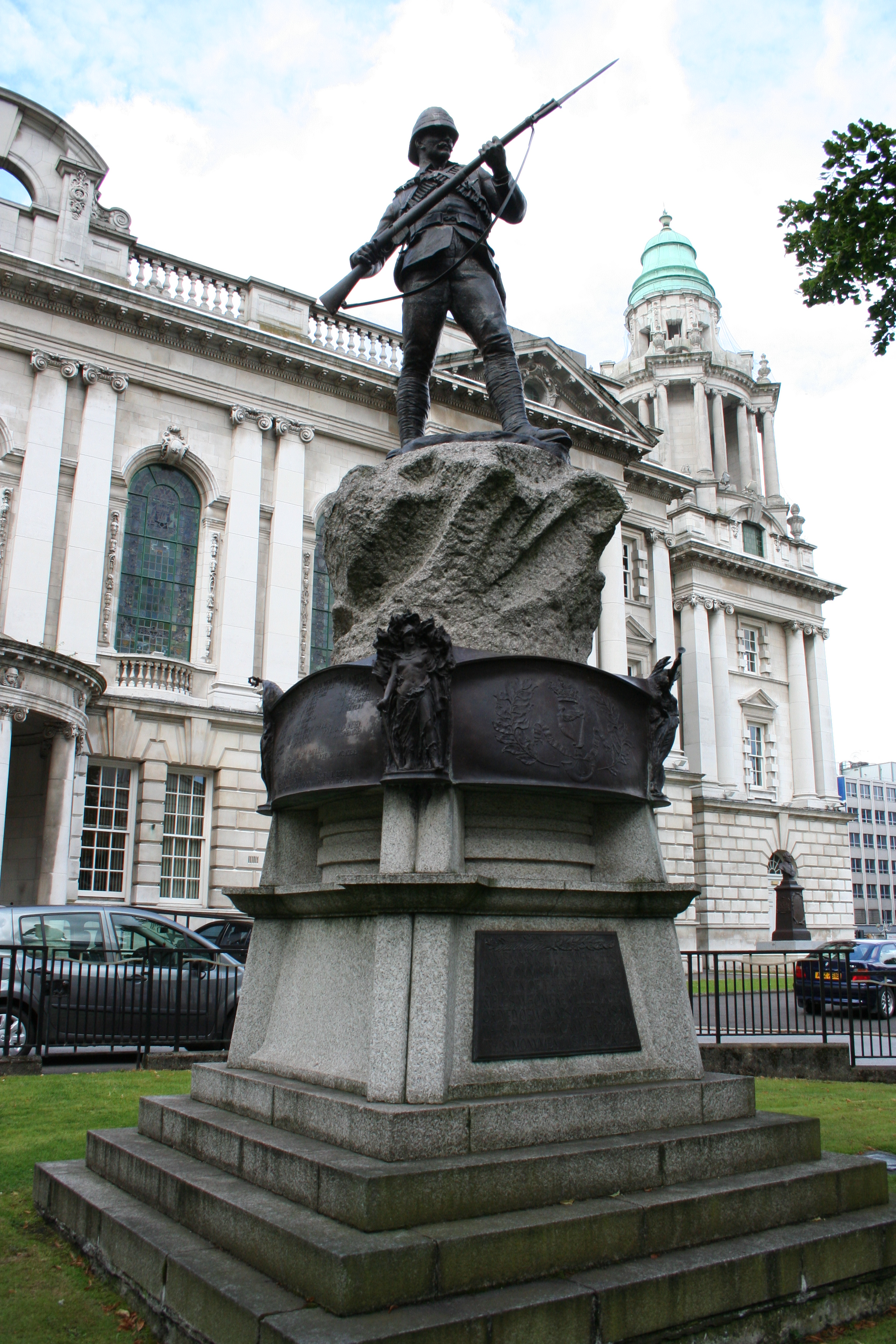 Monument to Royal Irish Rifles in the grounds of Belfast City Hall Credit: A Peter Clarke image